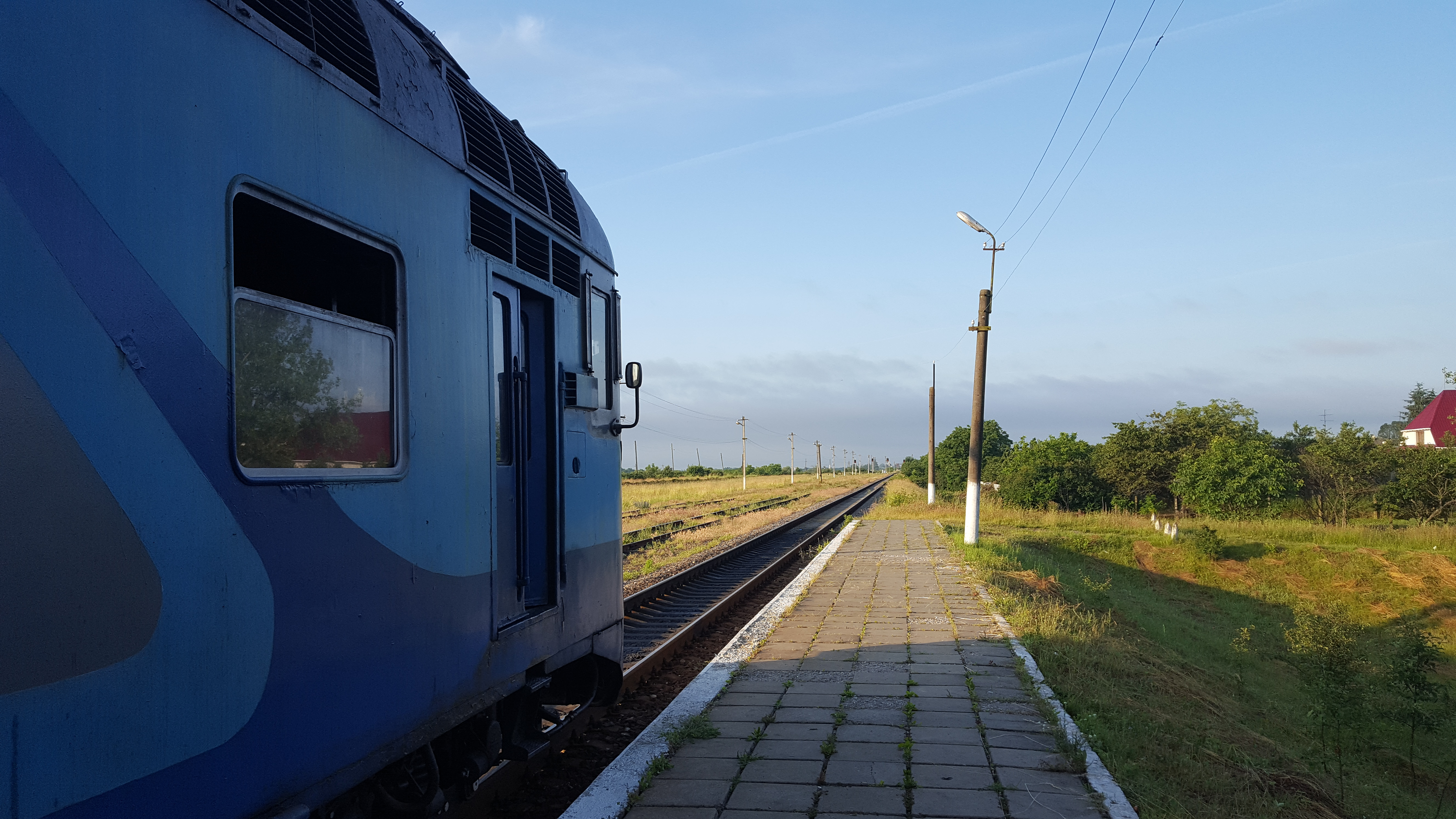 A train at a station in Dyakovo (Дякове), Ukraine. The track continues to Halmeu, Romania.